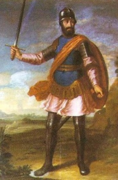 Duque